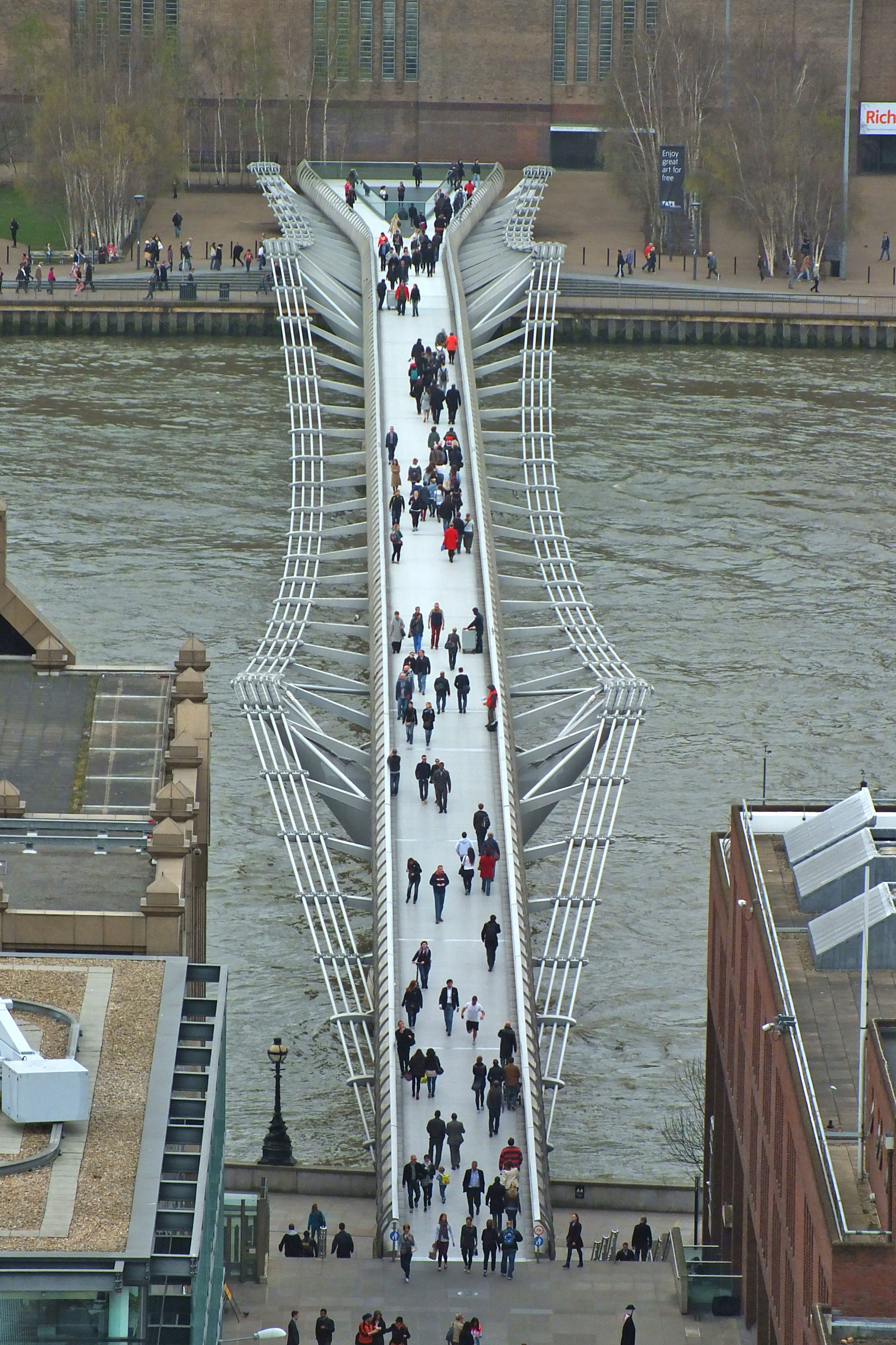 London Millenium Bridge from Saint Paul's Cathedral.